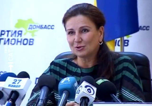 Inna Bohoslovska, Ukrainian politician, former member of the Ukrainian Verkhovna Rada